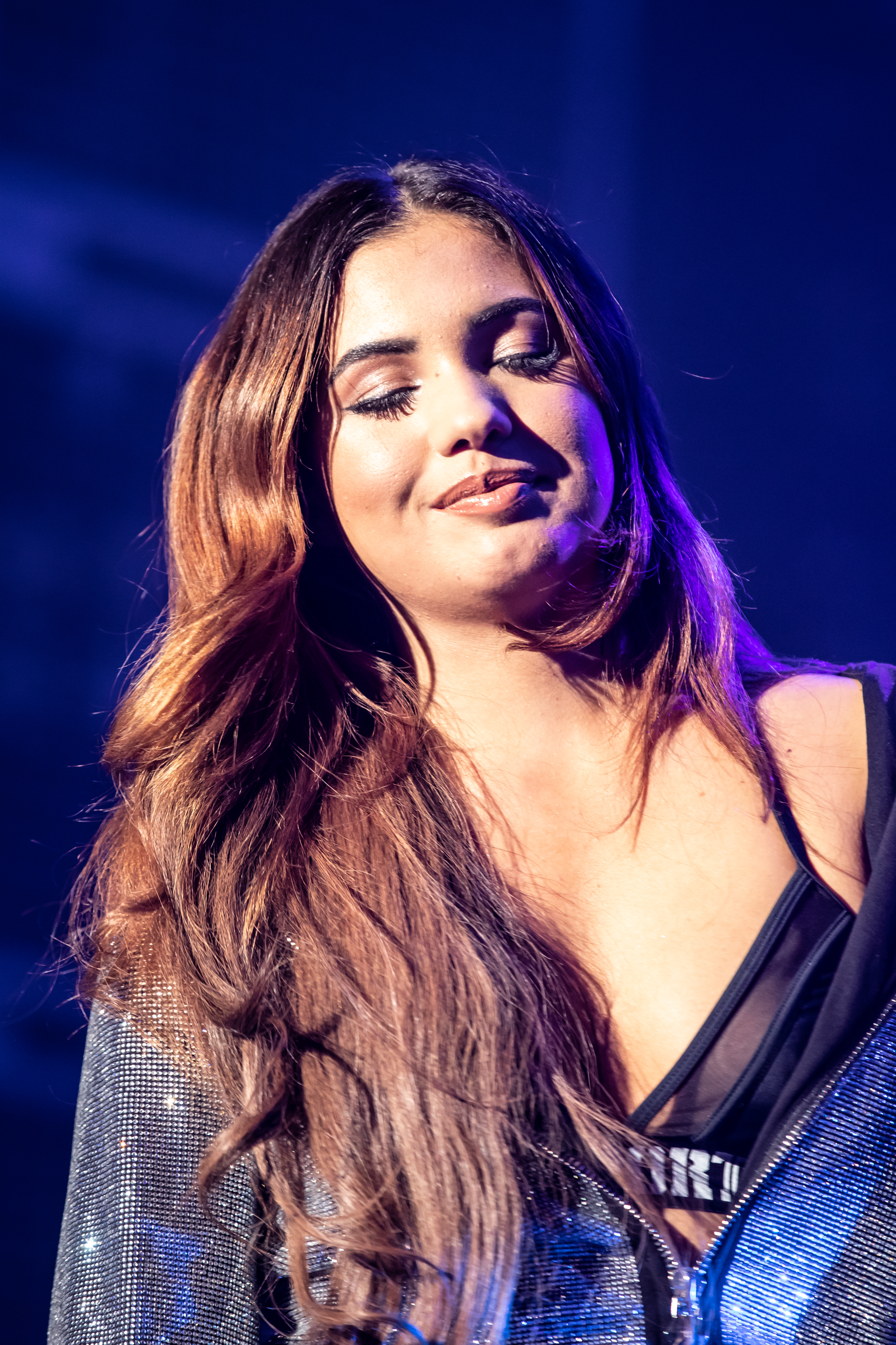 British-Swedish singer Mabel at the SWR3 New Pop Festival 2018